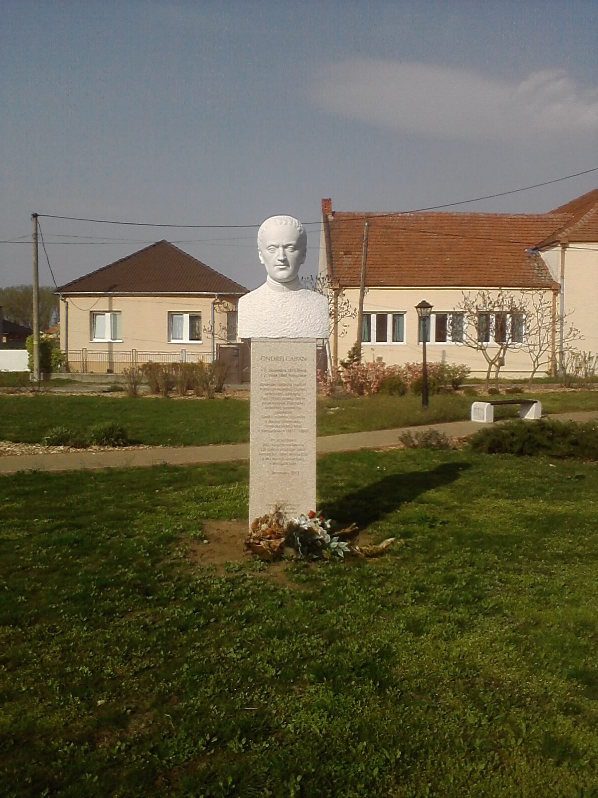 Autor: Mgr. art. Roman Hrčka, ArtD.